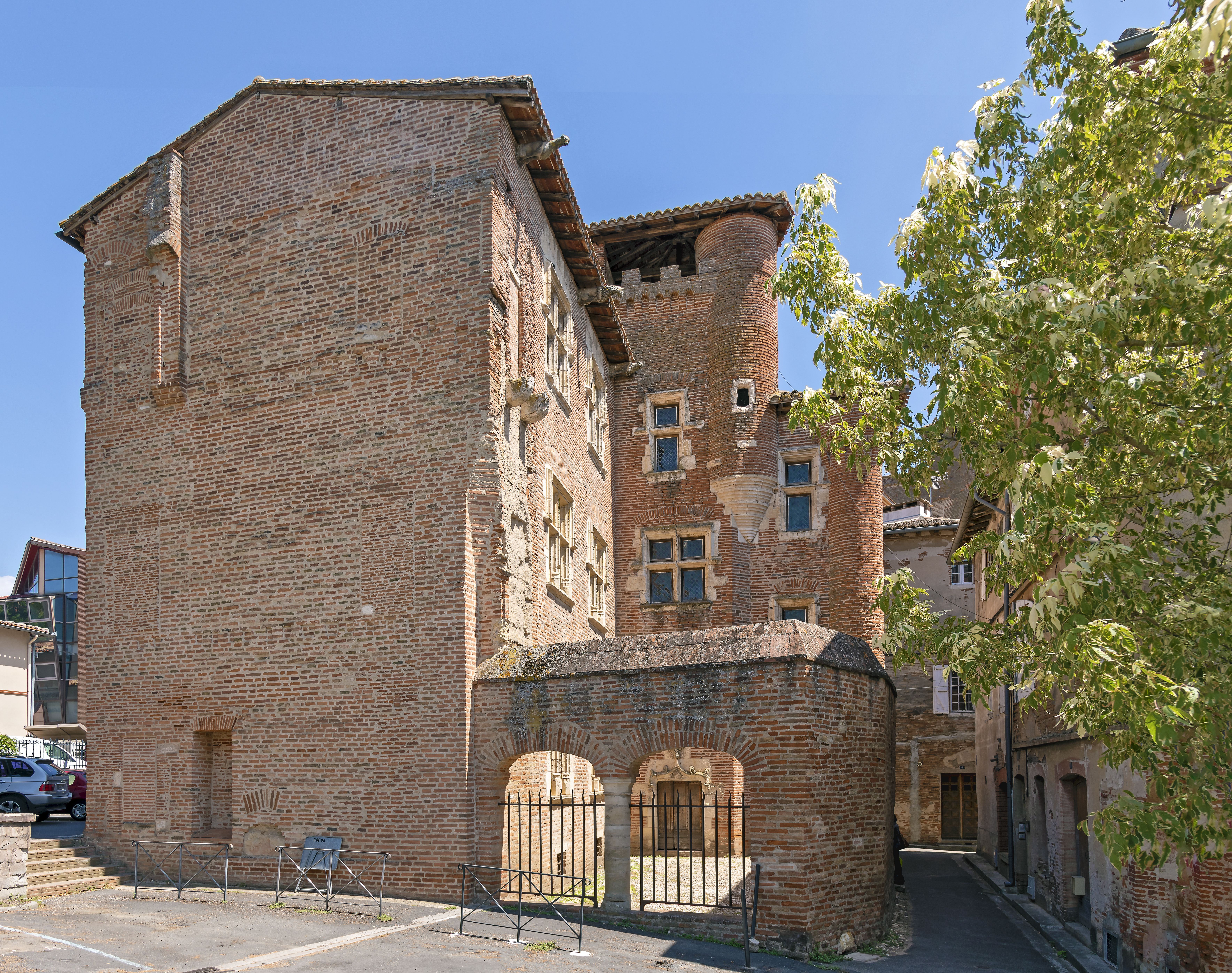 House called Pierre de Biens Gaillac in the Tarn department; Fifteenth century.